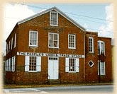 The old Blackman-Bosworth Store building is now used as museum and headquarters for the Randolph County Historical Society.